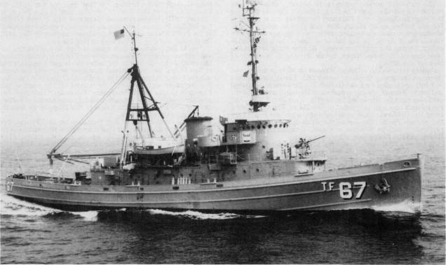 United States Navy fleet ocean tug USS Apache (ATF-67) underway off Southern California